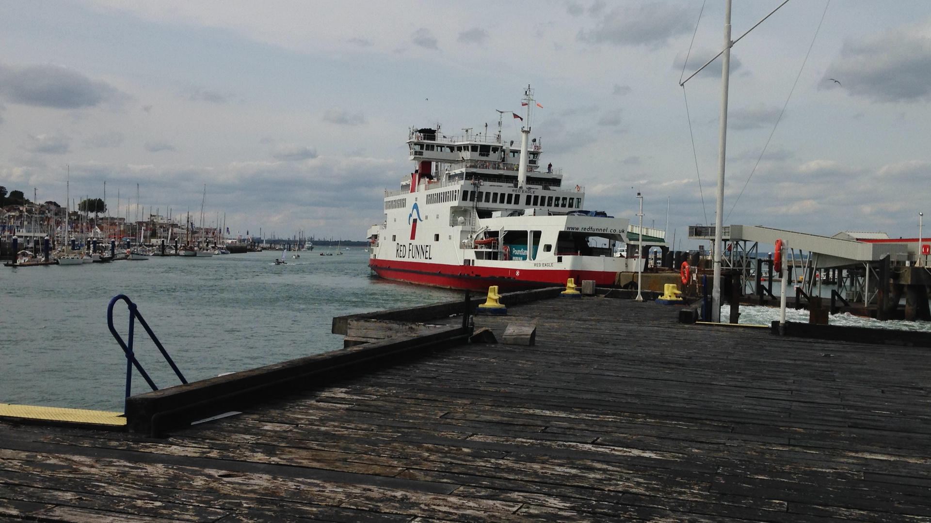 MV Red Eagle departing from Red Funnel's newly-enlarged terminal at East Cowes. After purchasing and demolishing several vacant buildings to make way for the larger marshalling yard, the terminal has wide views of Cowes Harbour and into the Solent, making it a good location to capture the goings on in the harbour.